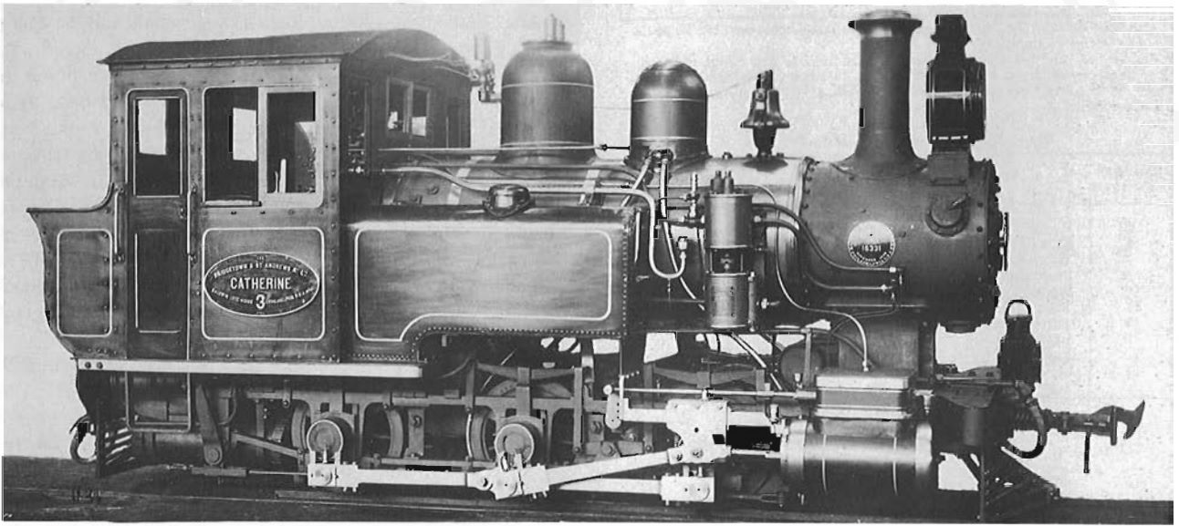 Bridgetown & St. Andrews Railway Limited 0-6-0 No.3 'Catherine' built by Baldwin Locomotive Works in 1898, builders number 16331. Photo H.L. Broadbelt Collection, courtesy of S.S. Worthen.